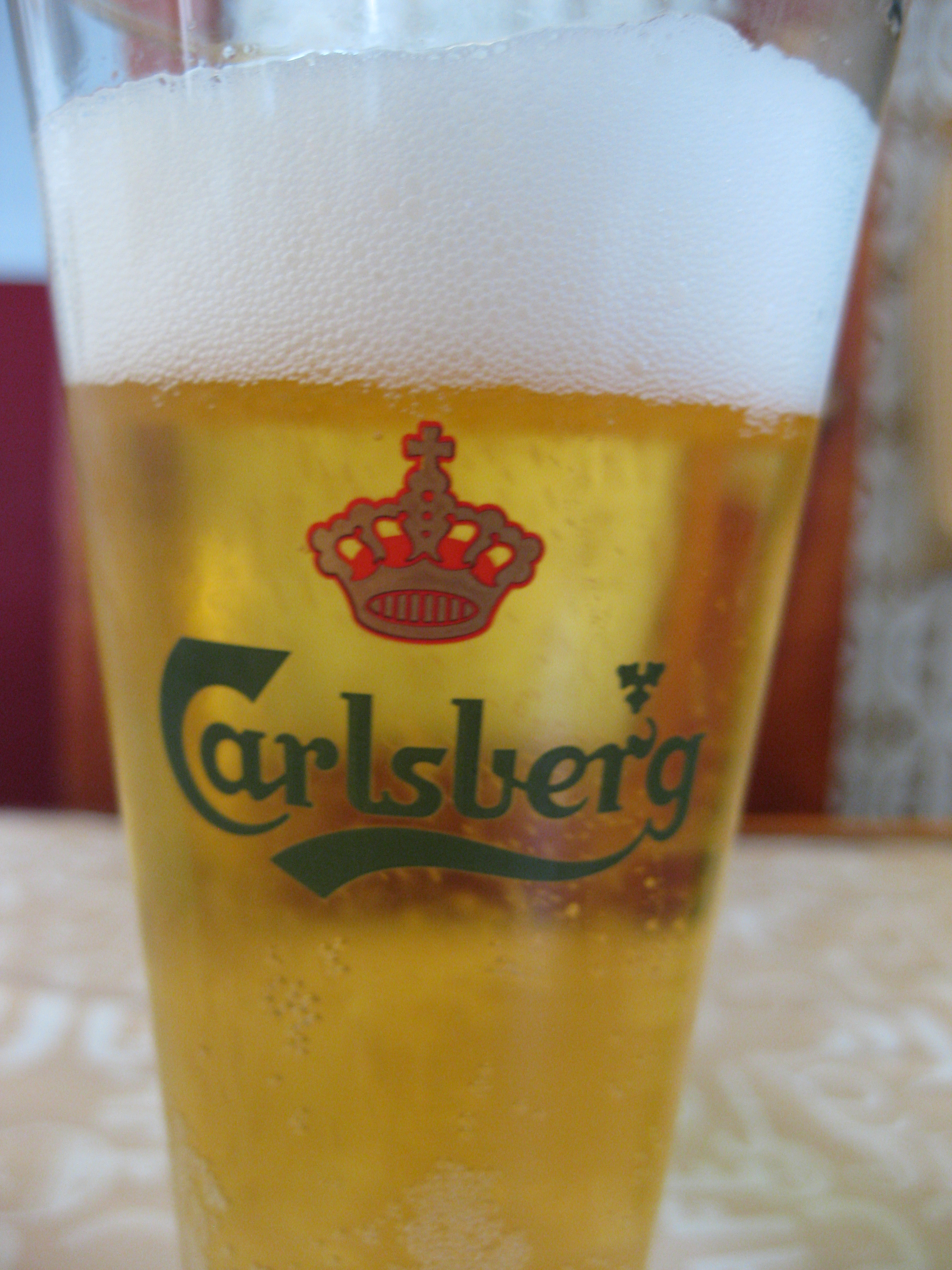 Detail of a Carlsberg glass.